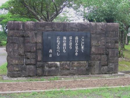 Monument showing the poem by Saito Mokichi outside the Obama Onsen in Obama, Unzen, Nagasaki Prefecture, Japan.